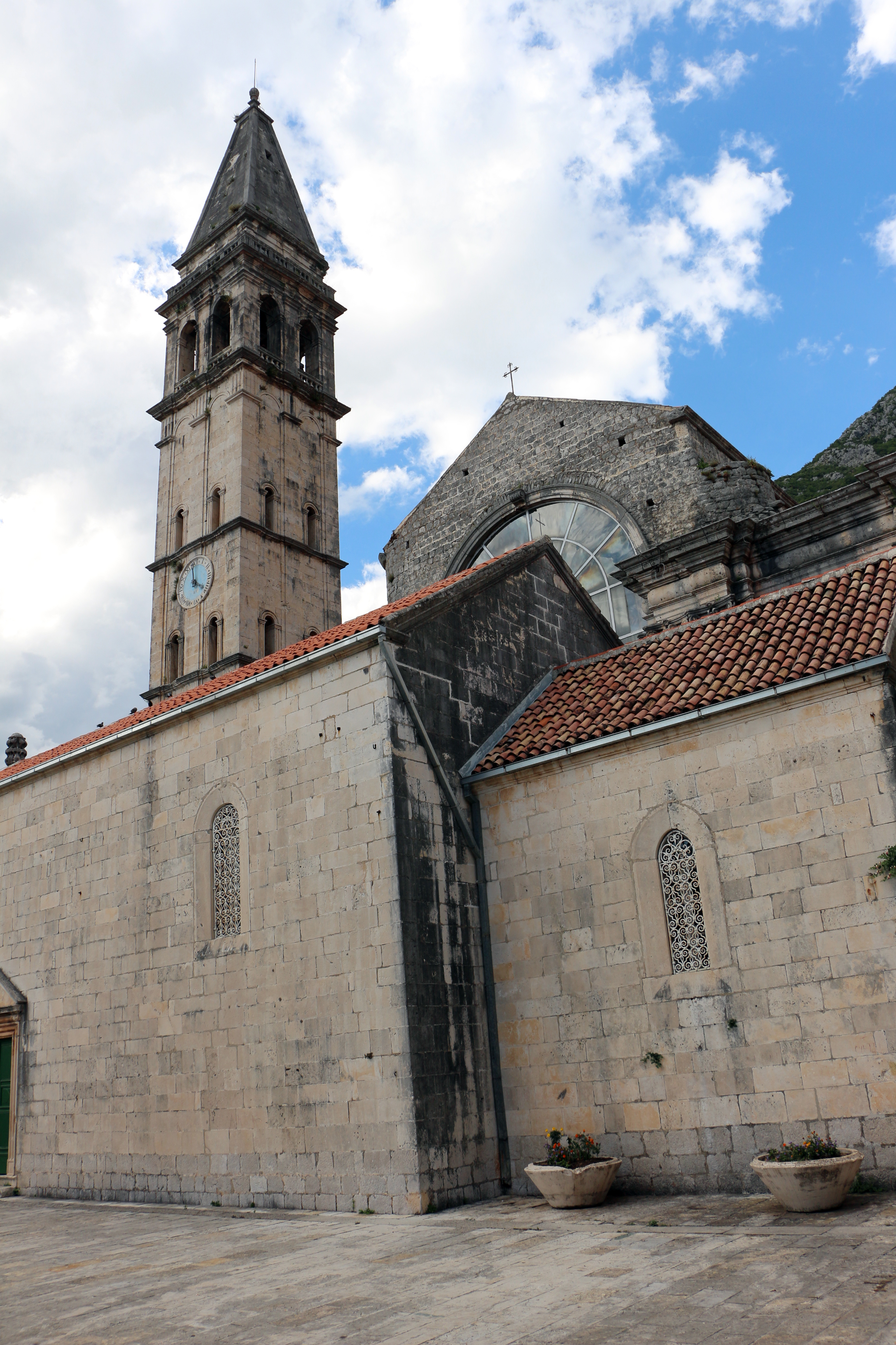 Saint Nicholas church in Perast